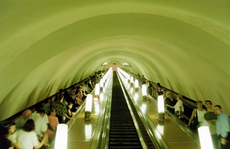 Metro Moscow, escalators at a station